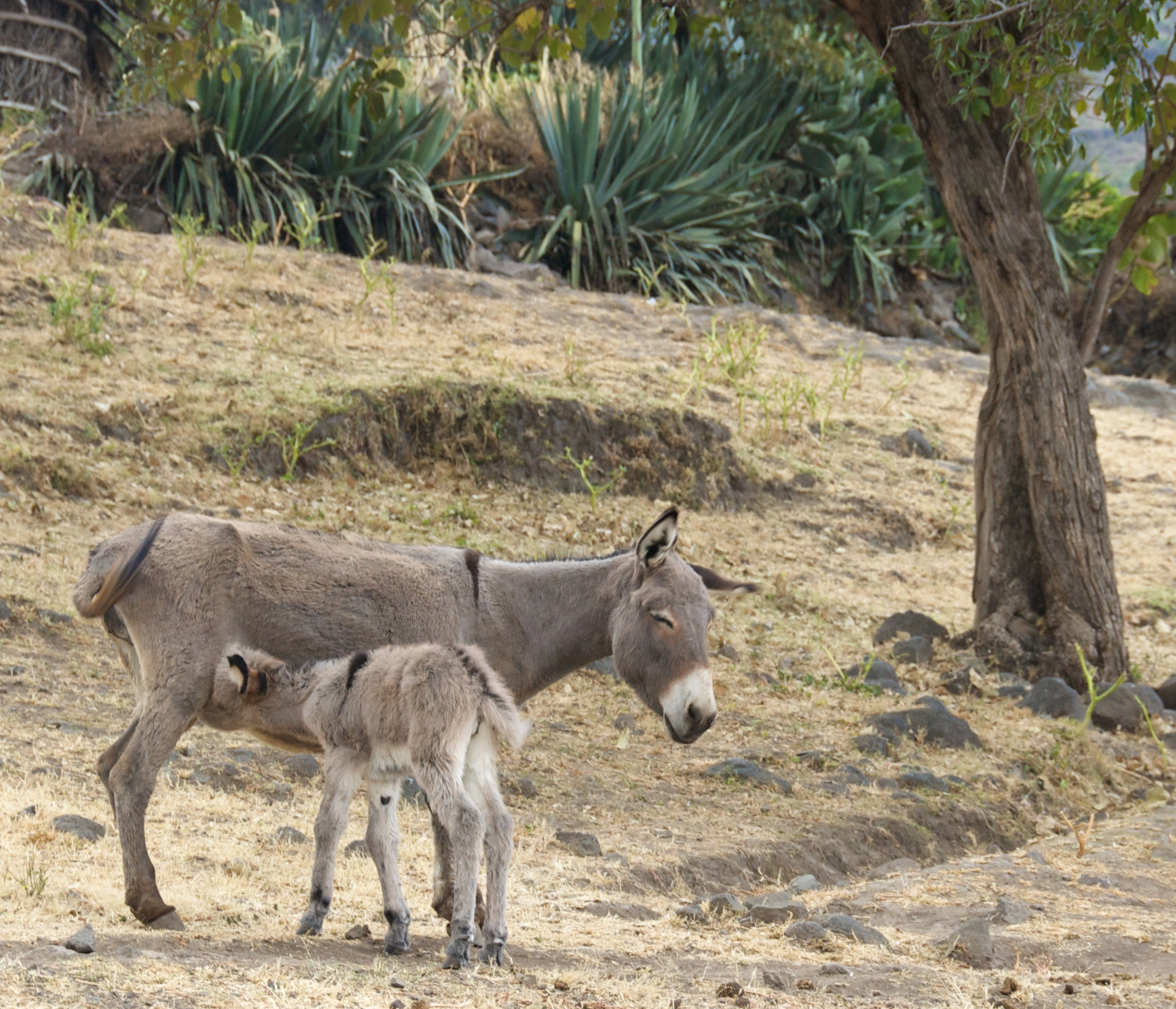 Donkeys and oxen are the hardest working animals in Ethiopia. It was a pleasure to see a donkey mare enjoying some down time with her colt. Near Lalibela, Ethiopia.